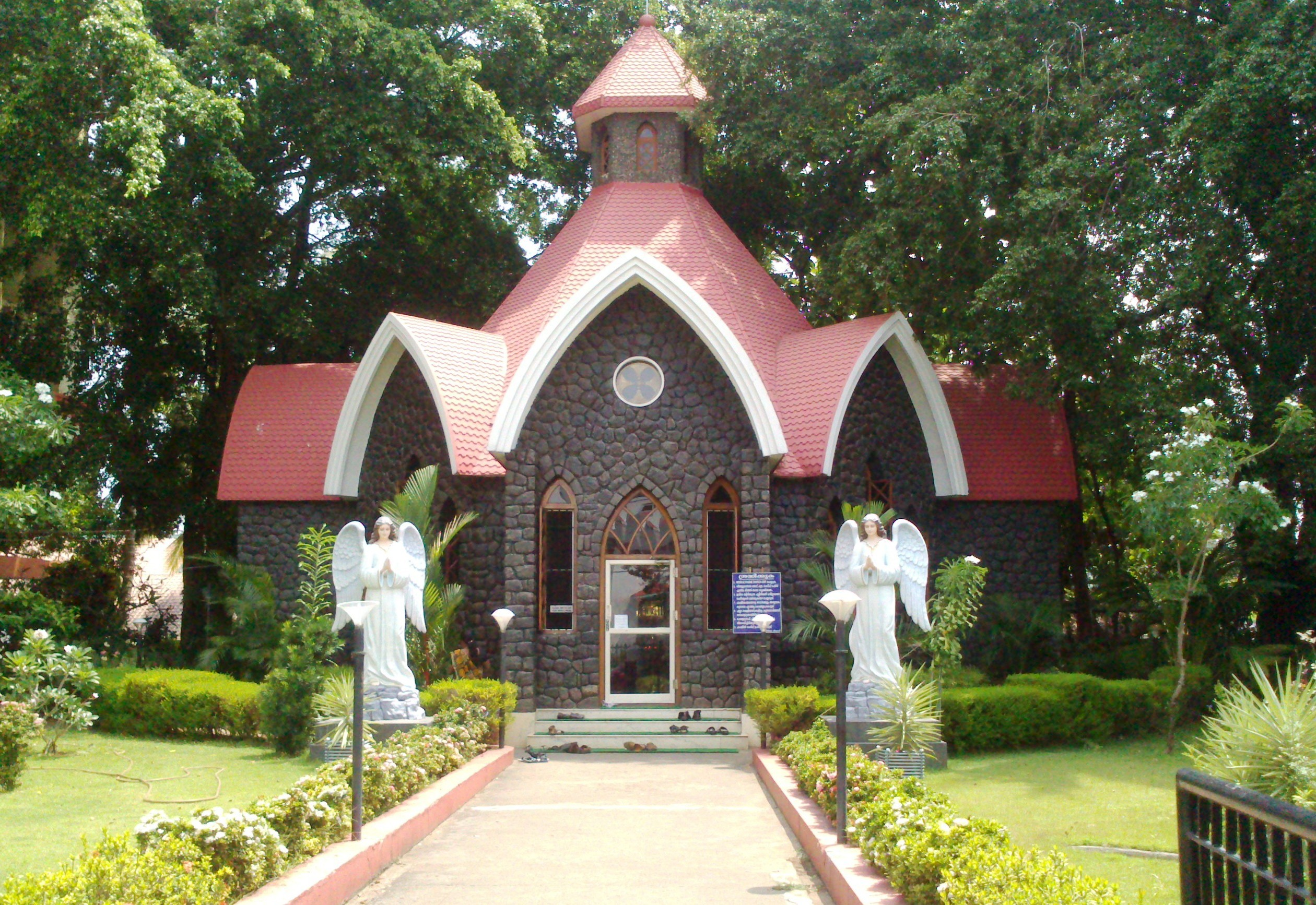 St Mary's Syro Malabar Basilica Full Chapel